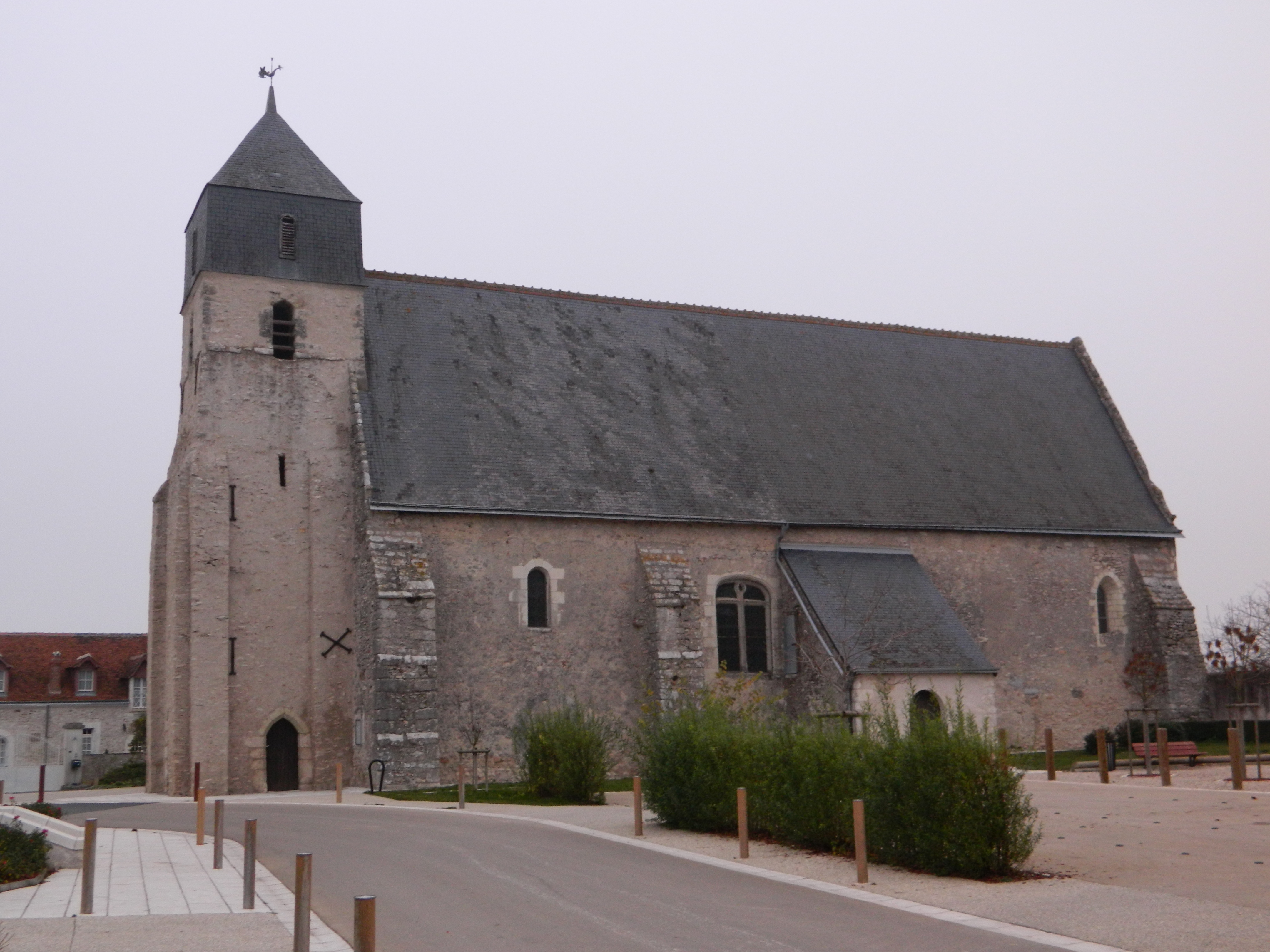 Parish church Notre-Dame of Cigogné